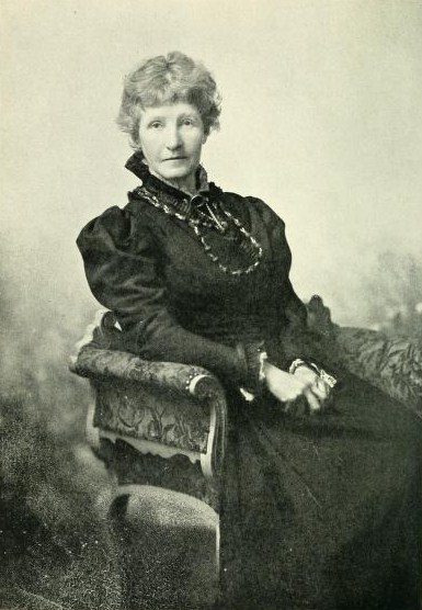 Photograph of Helen Allingham, artist